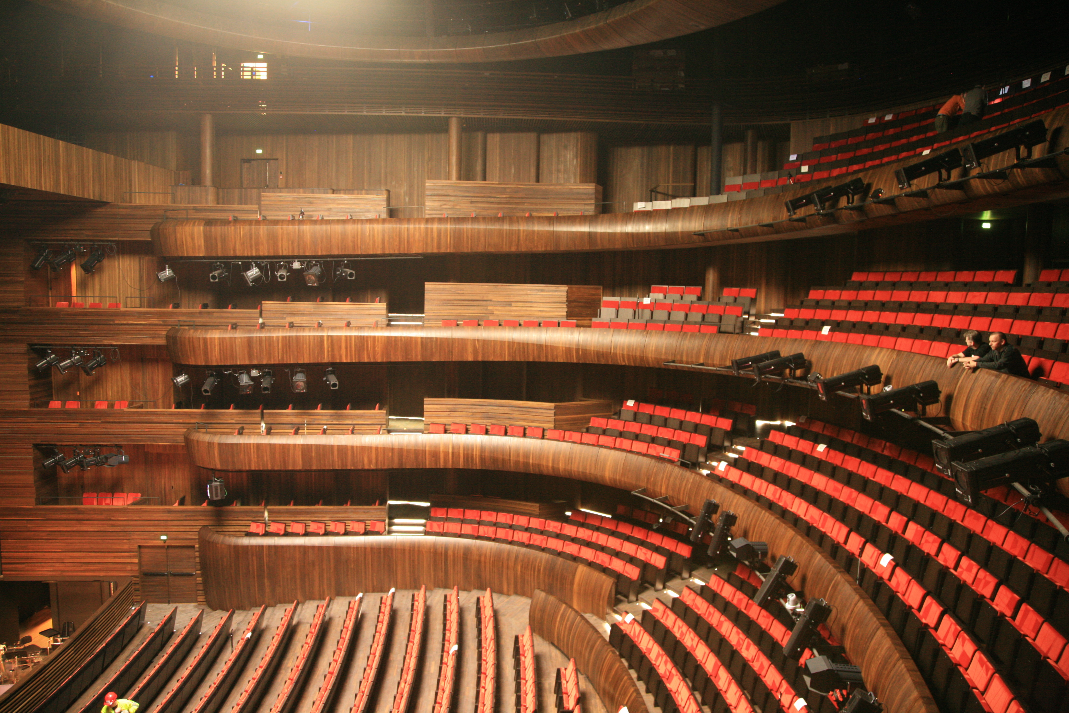 Interior of Oslo Opera house.